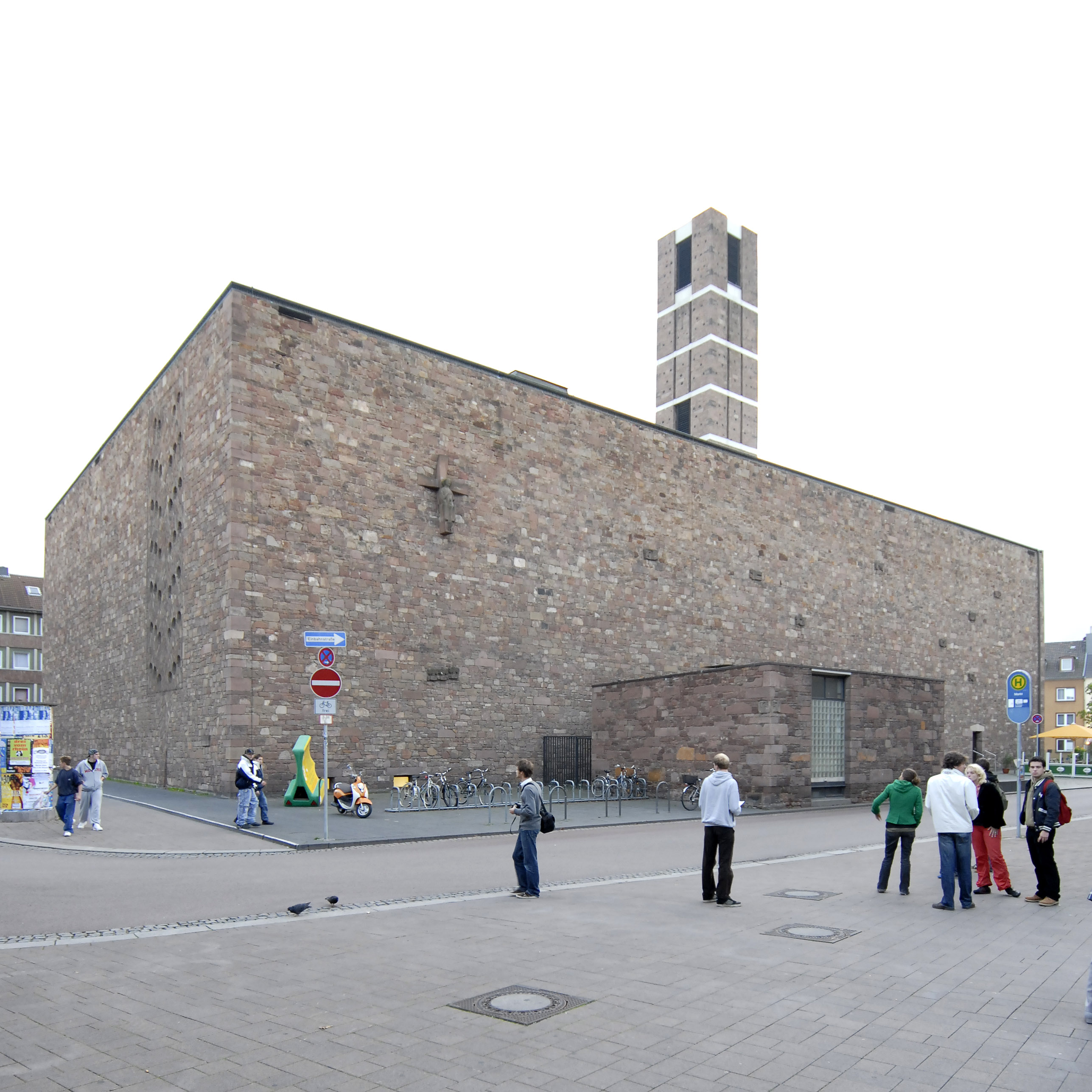 Church St. Anna in Düren by Architect Rudolf Schwarz